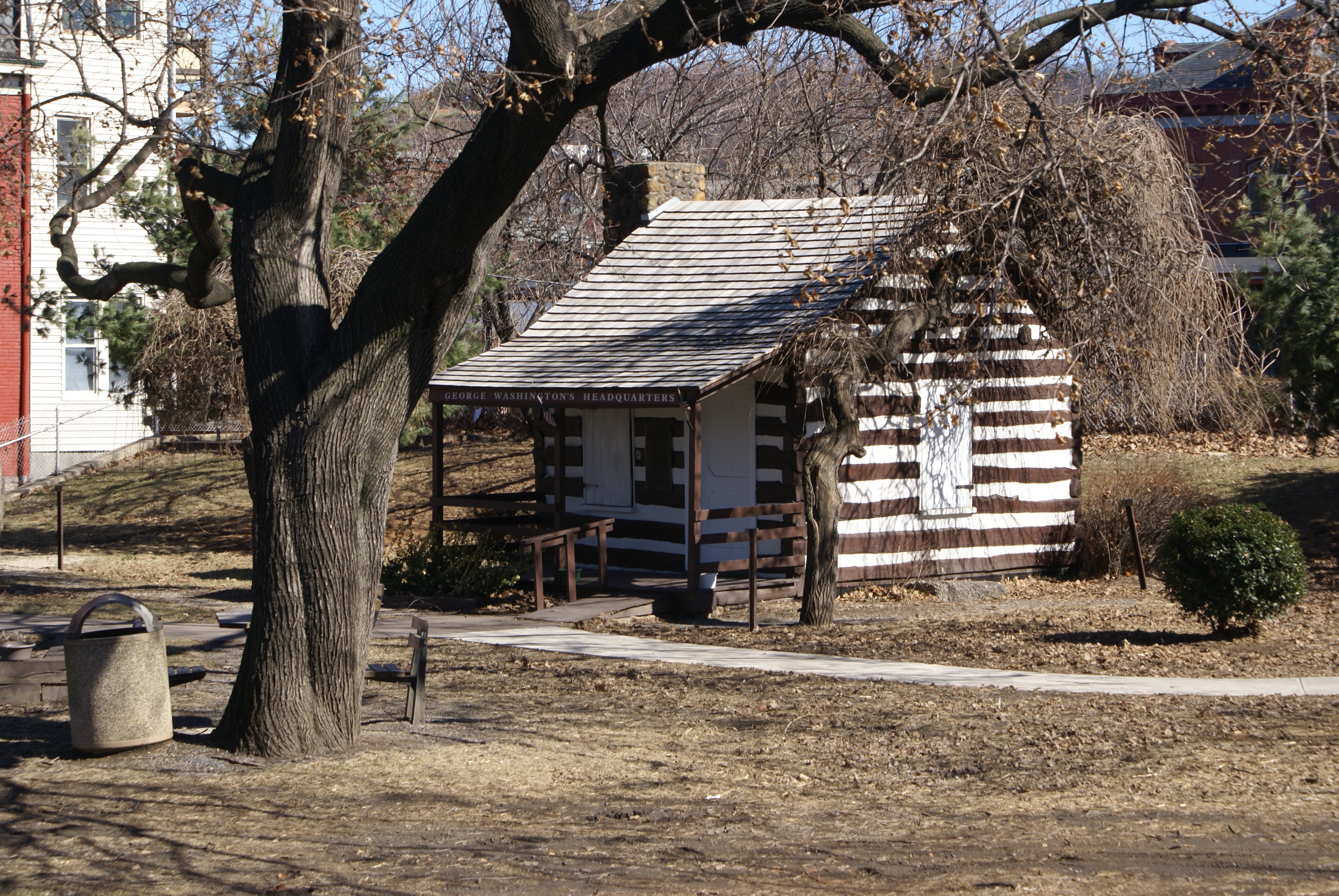 George Washington's Headquarters from Fort Cumberland, relocated to Riverside Park, Cumberland, Maryland. Mid 18th Century.